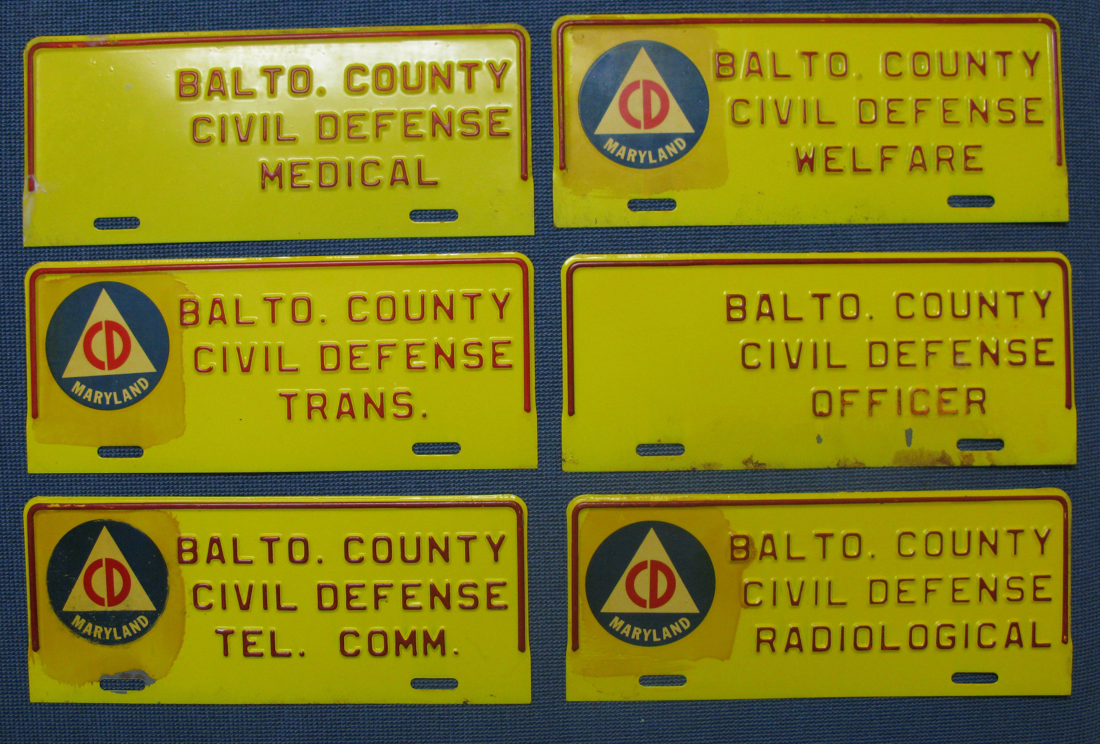 Civil defense car tags from Baltimore County showing 6 different posts or departments. circa 1962. Tags are part of the artifacts collection of The Historical Society of Baltimore County